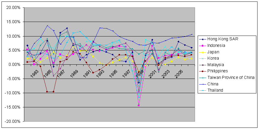 GDP yoy, GDP is expressed in constant national currency per person. Data are derived by dividing constant price GDP by total population